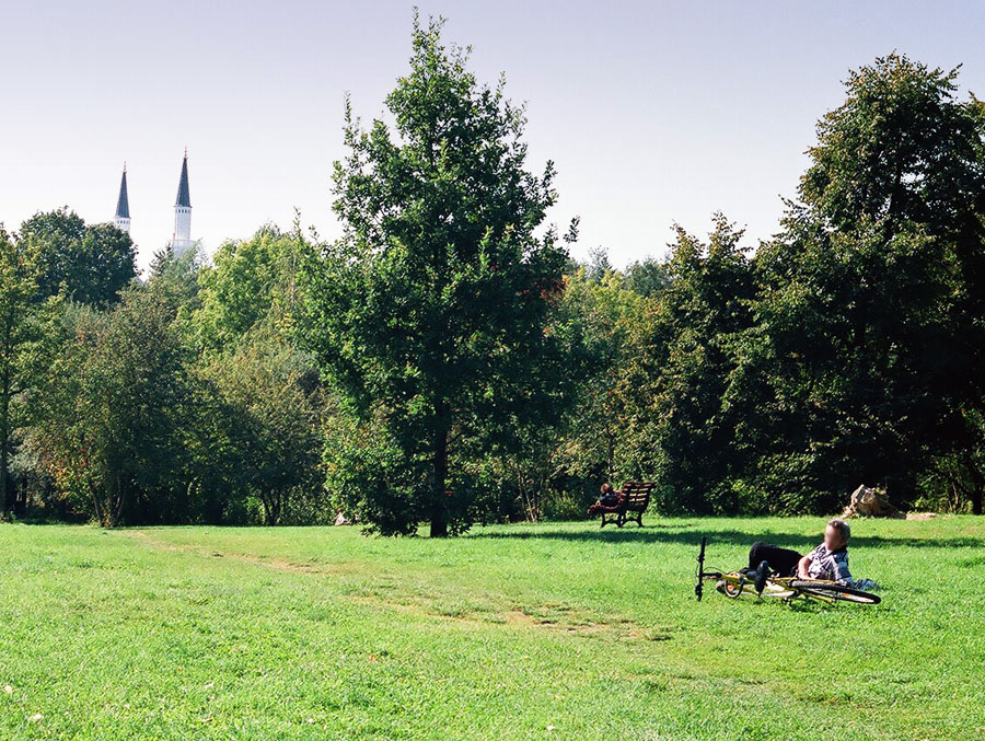 "Hasenheide" in Berlin with Şehitlik-mosque in background